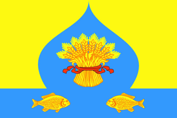 Flag of Kalininsky rayon, Krasnodar Territory, Russia